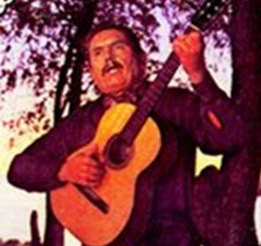 Linares Cardozo (Rubén Martínez Solís). Argentina. Folk musician.